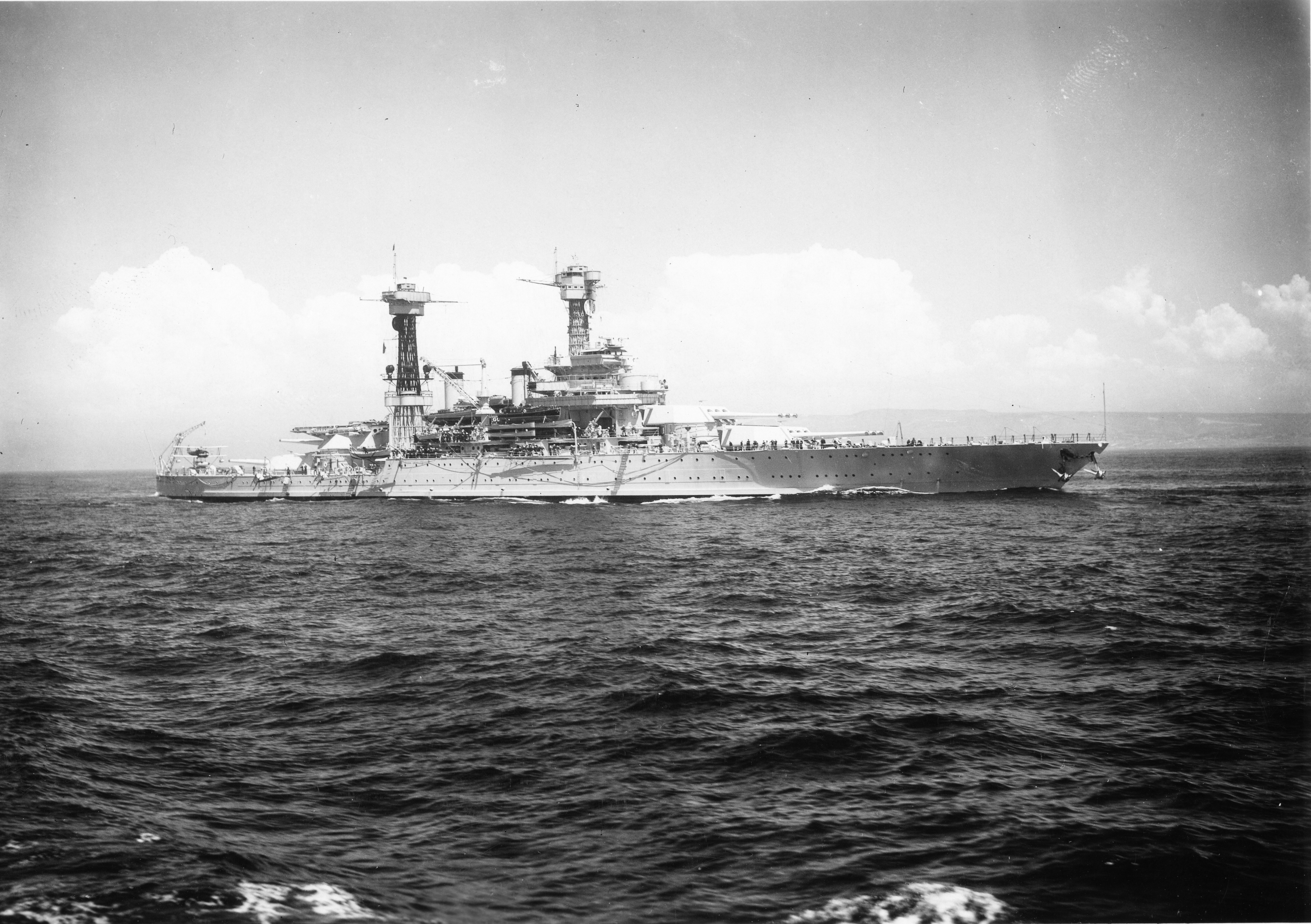 At sea, during the middle-1930s. U.S. Naval History and Heritage Command Photograph.